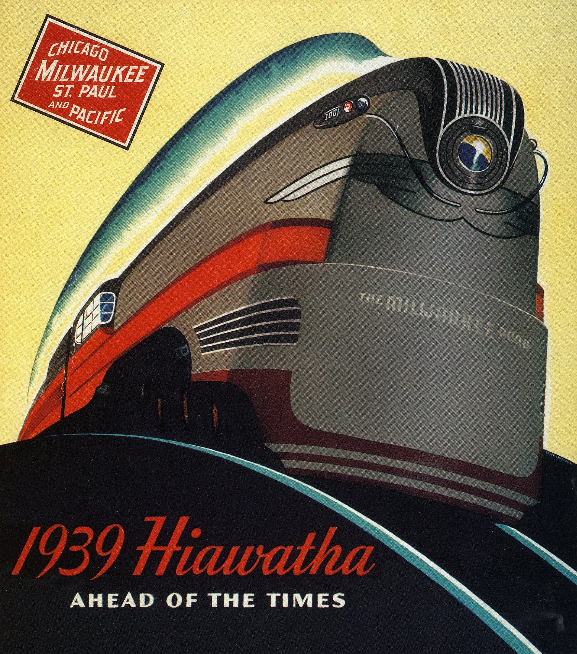 Chicago, Milwaukee, St. Paul & Pacific promoting their streamlined by Otto Kuhler F7 steam locomotives for the "Twin Cities Hiawatha"